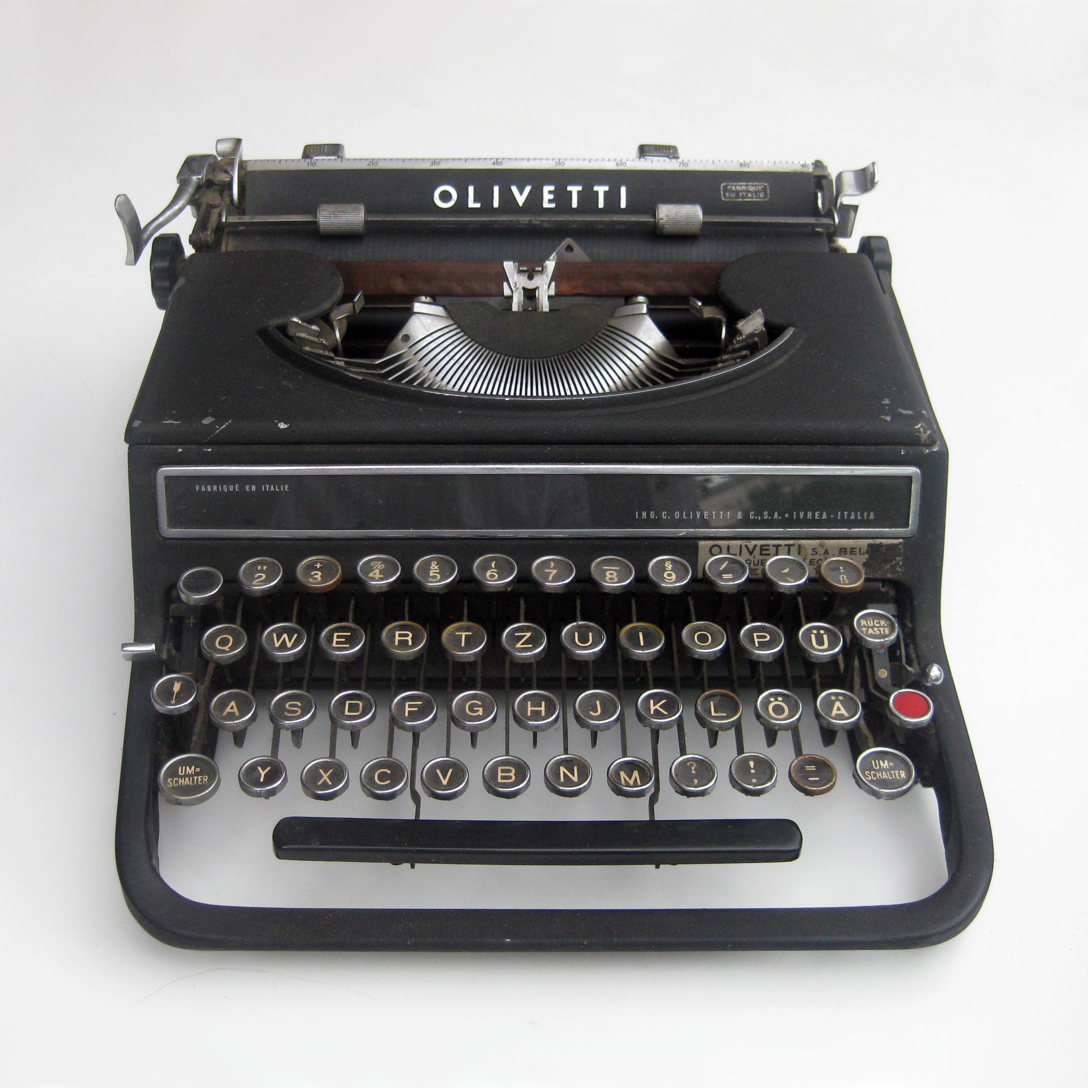 Typewriter "Olivetti Studio 42" designed by the Bauhaus-alumni Alexander Schawinsky in 1936